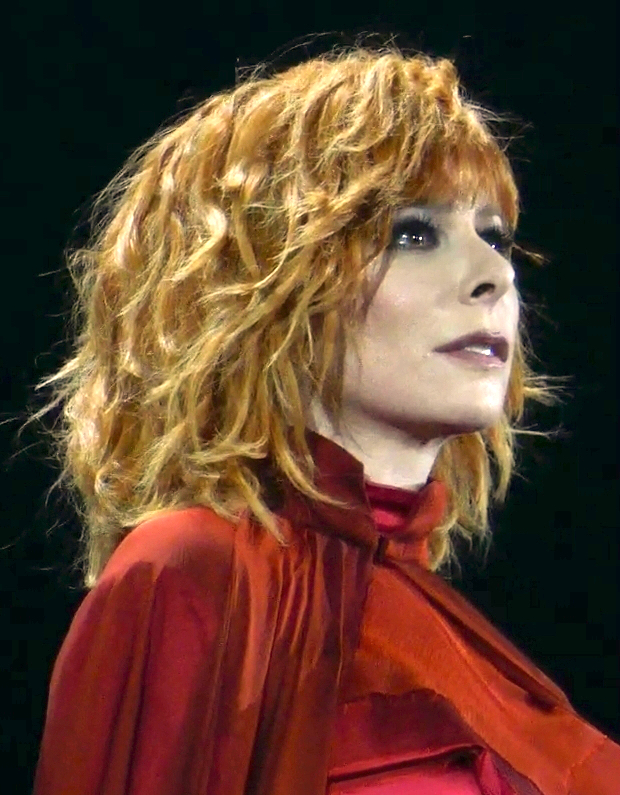 Final du concert À Paris la Défense Arena